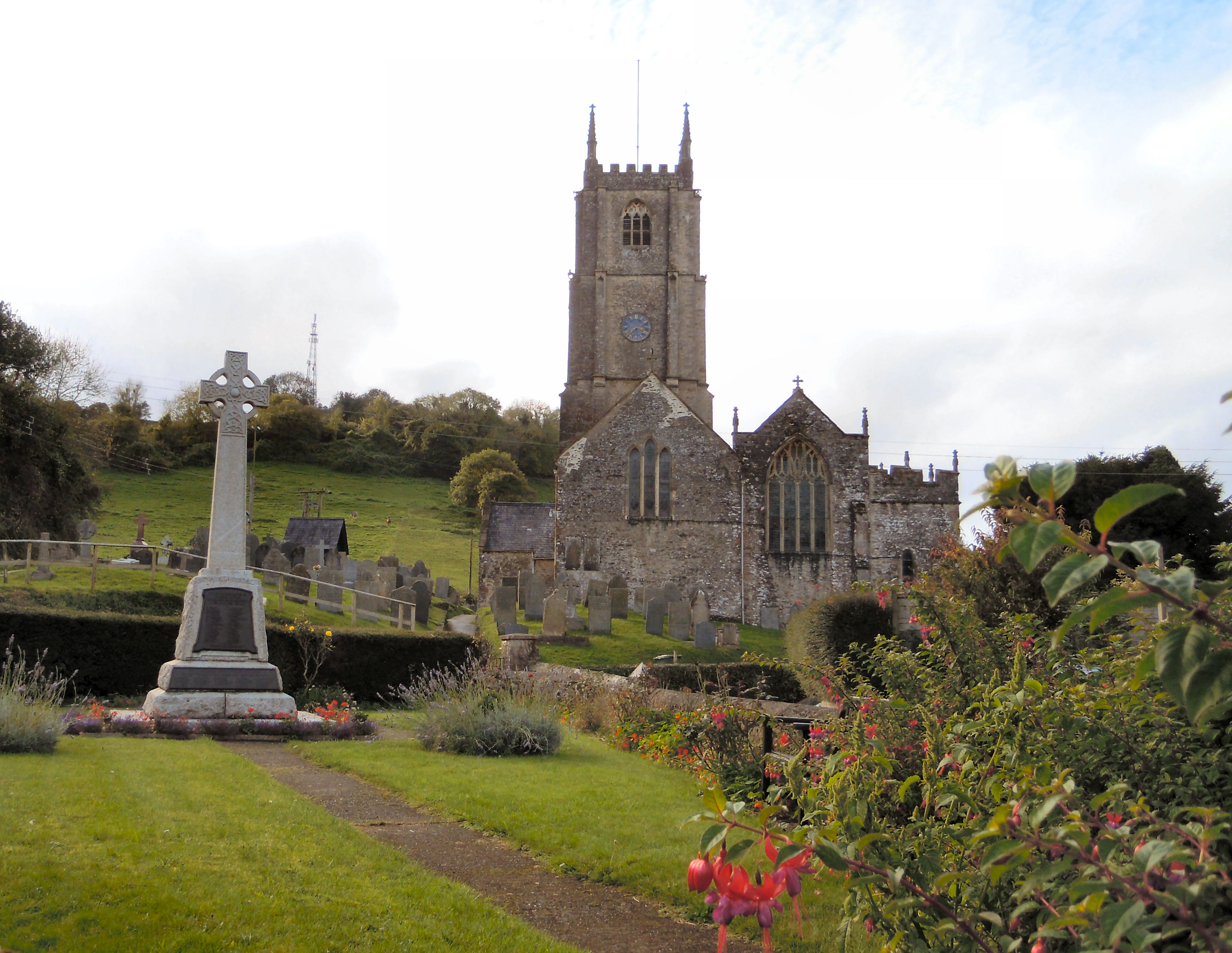 The War Memorial attached to the churchyard at the Church of St Peter ad Vincula in Combe Martin in North Devon